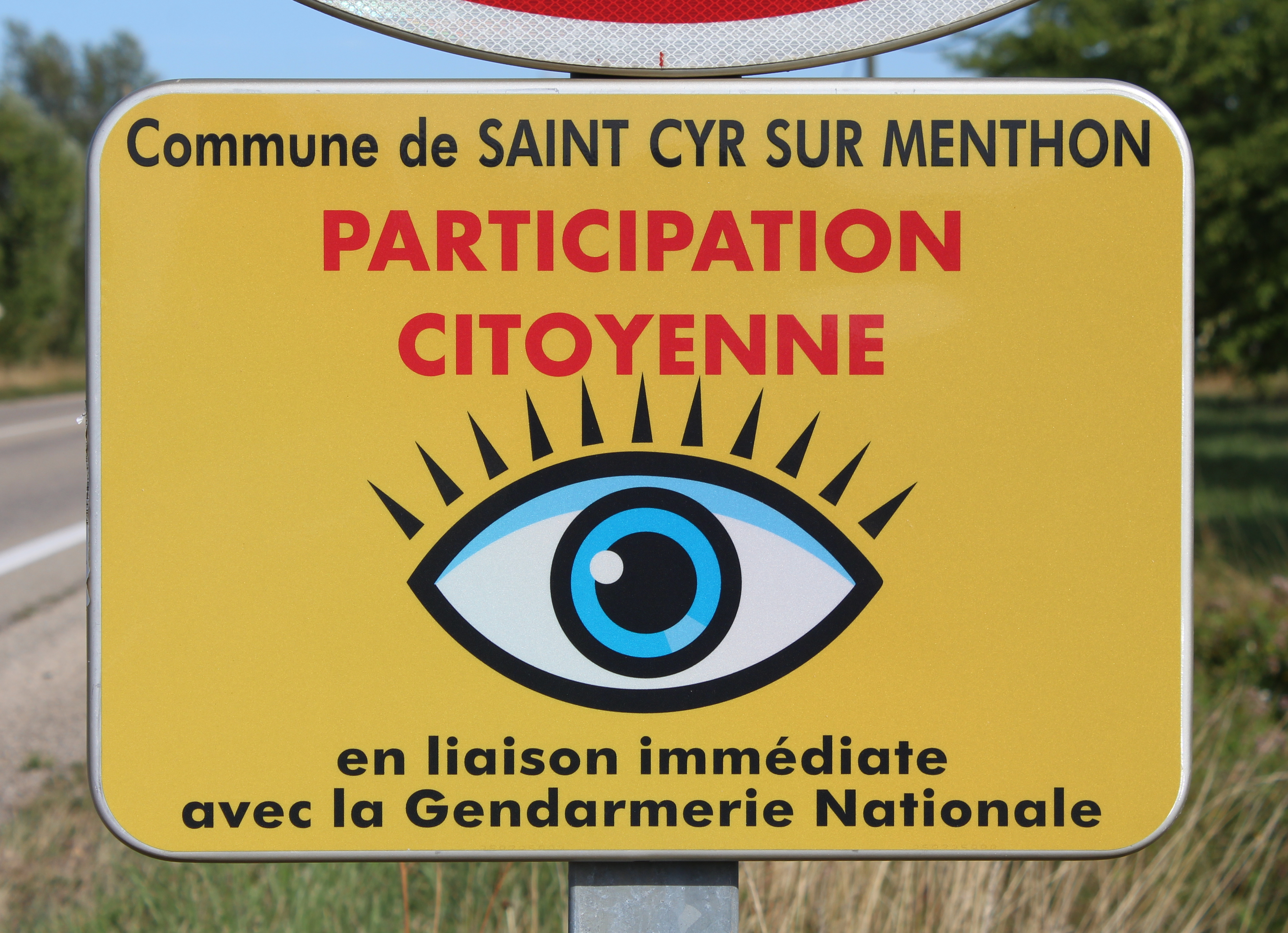 Neighborhood watch sign along Mâcon Road in Saint-Cyr-sur-Menthon, France.